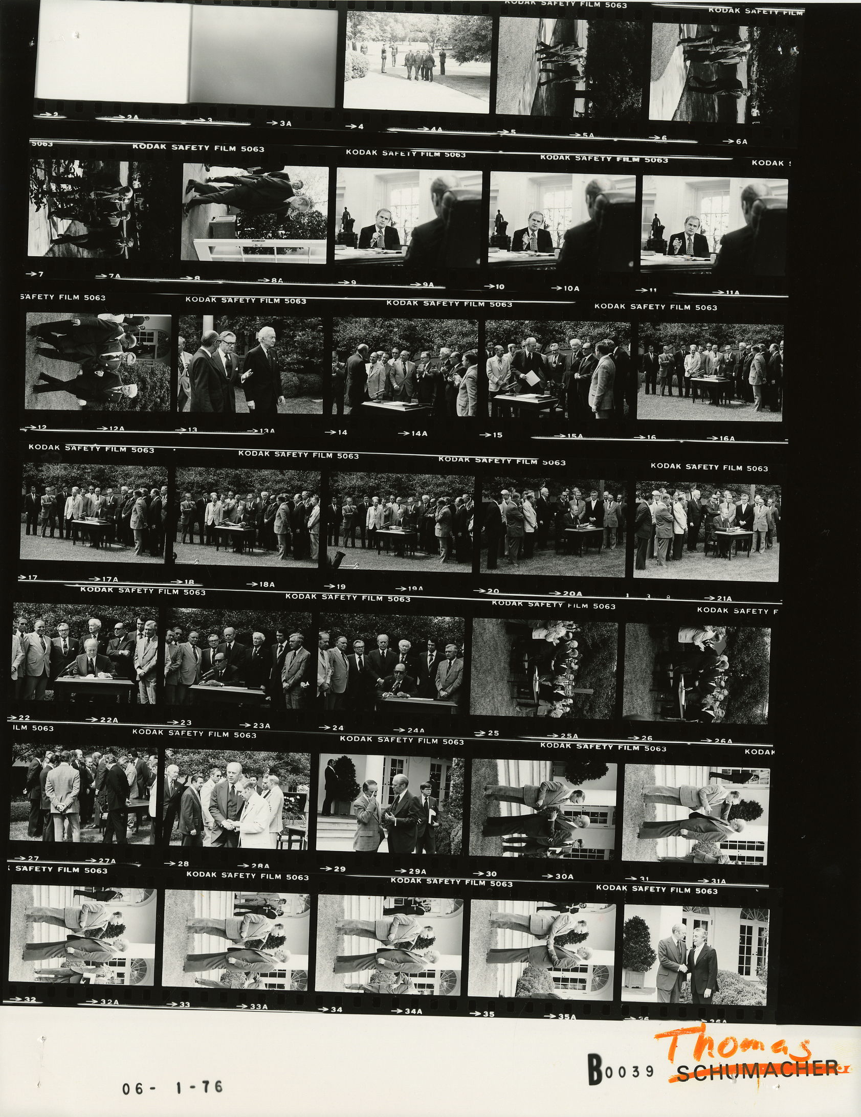 The photo contact sheet, identified as B0039 by the White House Photographic Office (WHPO), is housed at the Gerald R. Ford Presidential Library, a branch of the National Archives and Records Administration (NARA). This file is a 200 dpi photo contact sheet having images from roll of film B0039 of the August 9, 1974 - January 20, 1977 Gerald R. Ford White House Photographic Office Series A0001-A9999 and B0001-B2886 photographs. The date on the photo contact sheet is the date the roll of film was processed, not necessarily the date the photographs were taken. See table below for additional details.